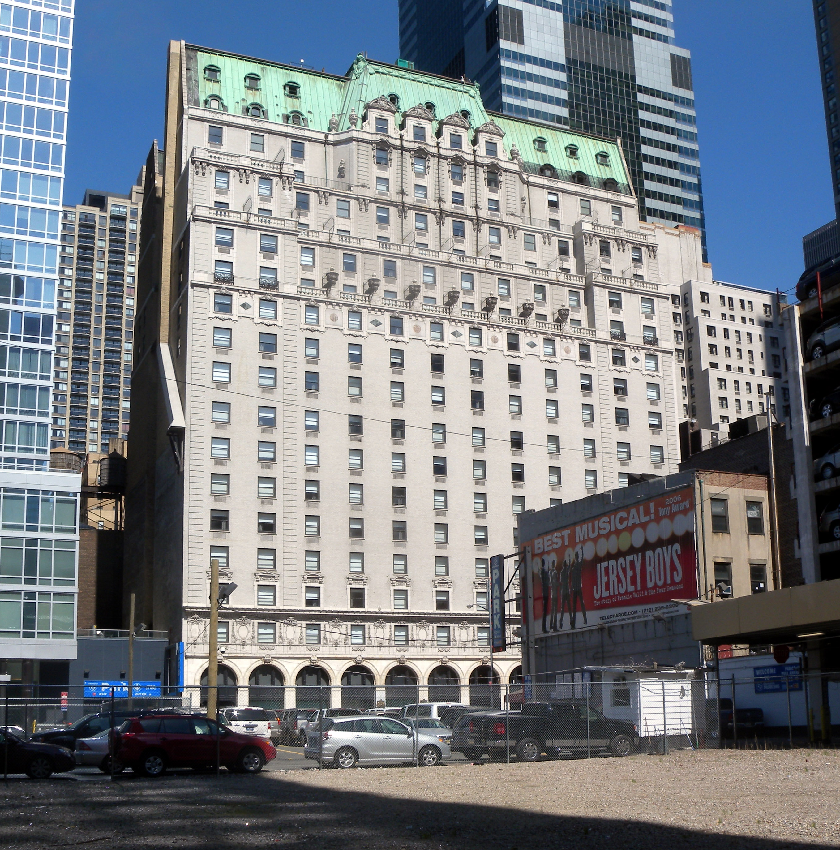 Looking northeast at Paramount Hotel on a sunny midday from 45th Street.